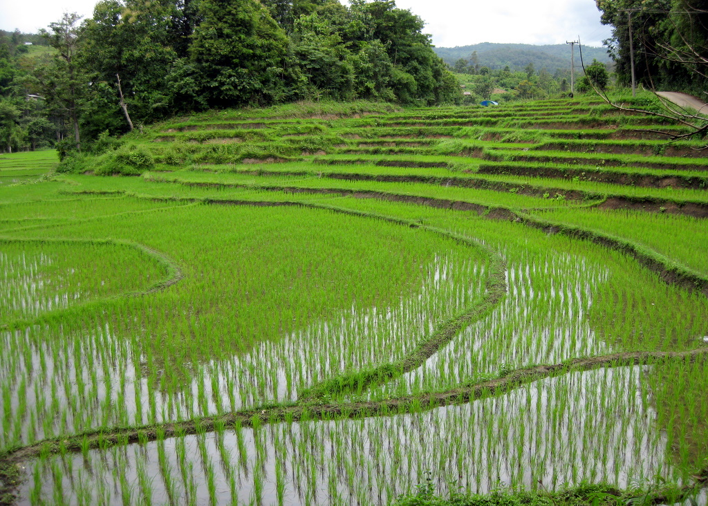 Rice fields near Chiang Mai, Thailand. Campos de arroz cerca de Chiang Mai, Tailandia.